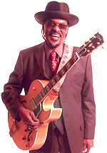 Chuck Brown, jazz musician.